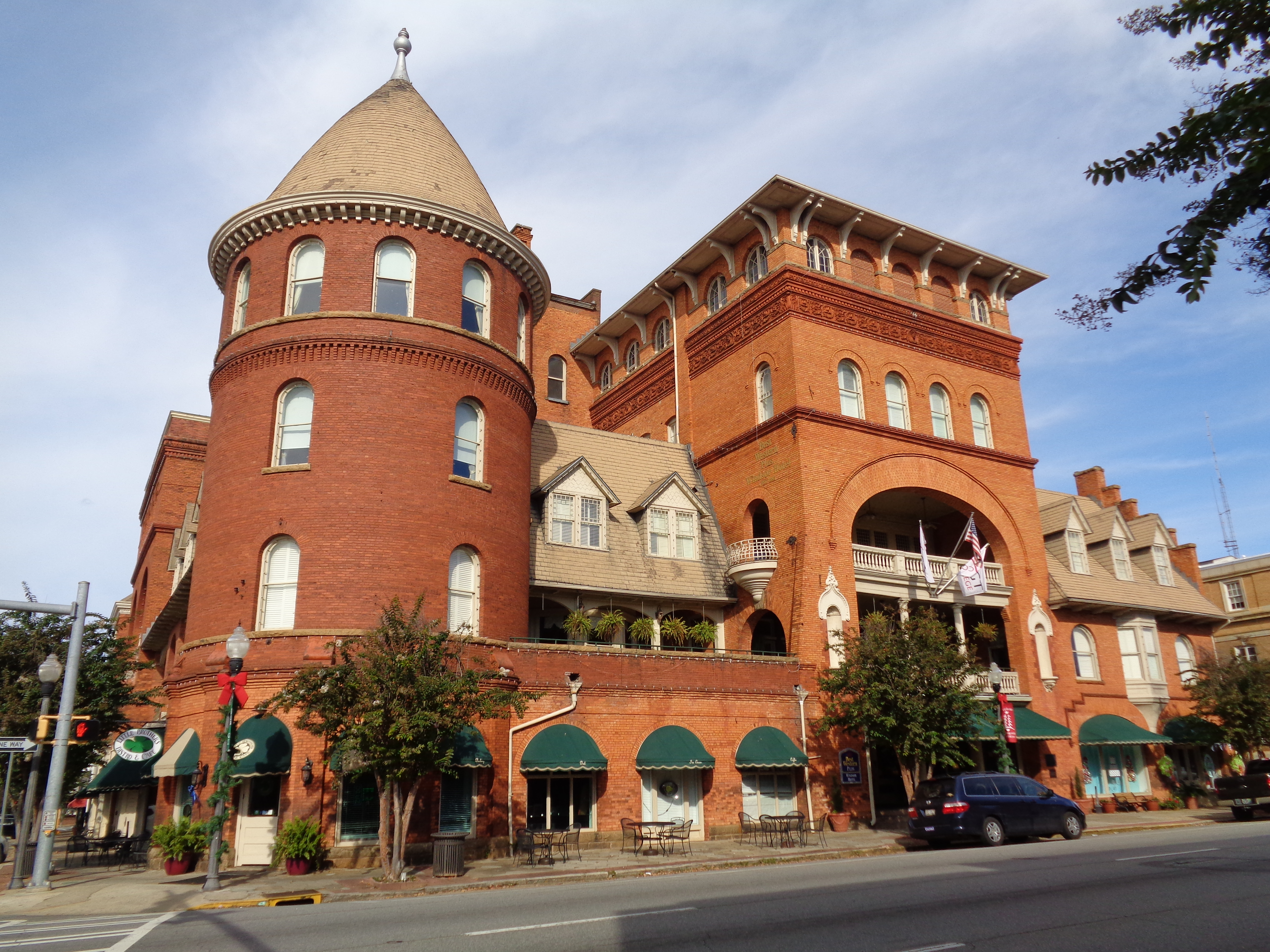 Americus, Sumter County, Georgia